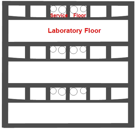 A section of a laboratory building at the Salk Institute for Biological Studies, designed by Louis Kahn. The three laboratory floors are unobstructed by support columns. Above each laboratory floor is a service floor to handle air ducts (some of which are shown), piping, cables, etc. The horizontal ladder-like structures that encase the service floors are Vierendeel trusses, which were designed by August Komendant, a structural engineer. The trusses are made of pre-stressed concrete and are supported by embedded steel cables in the shape a curve similar to that of cables that support a suspension bridge.